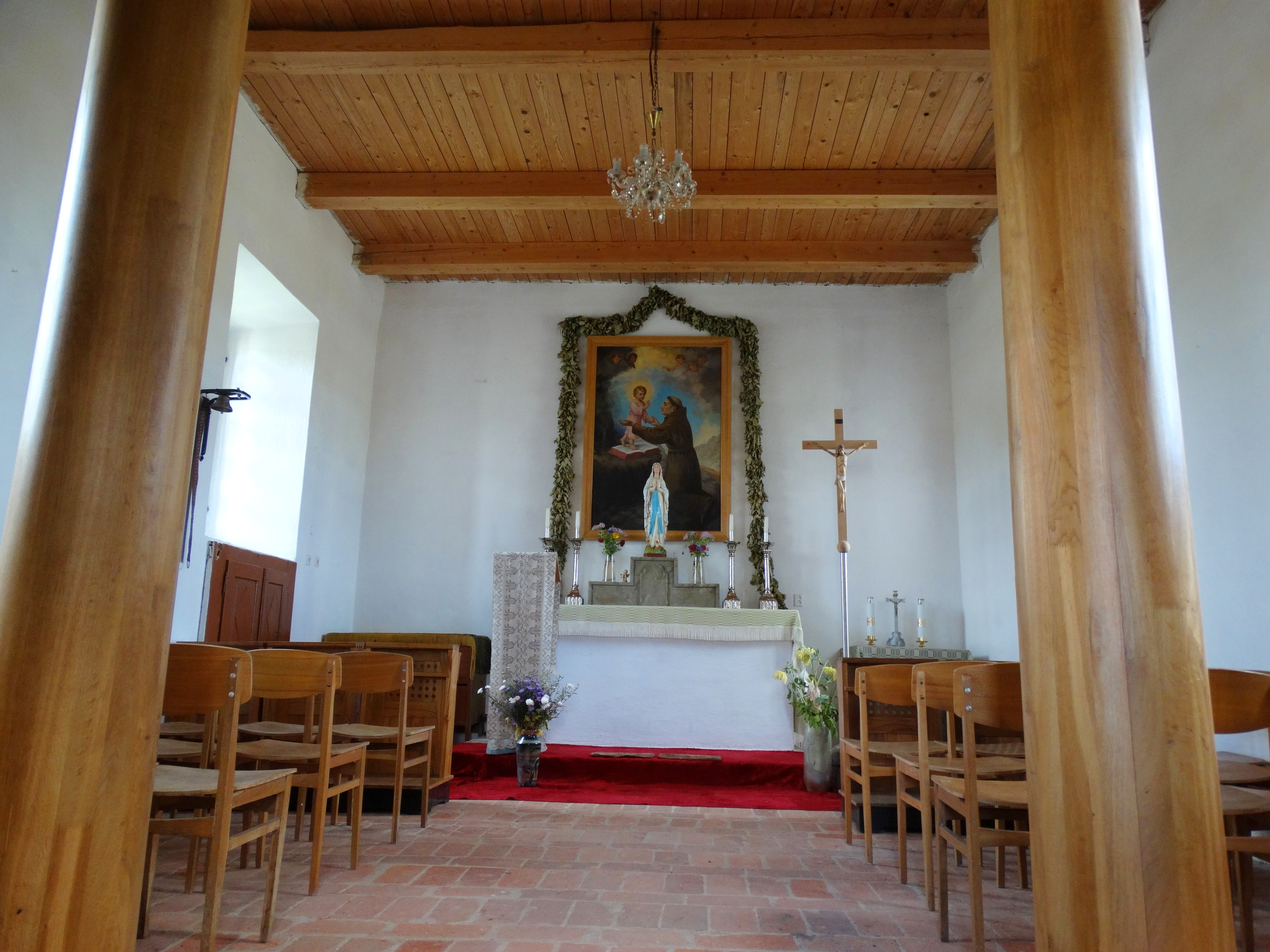 Chapel in Skuoliai, interior, Ukmergė District, Lithuania